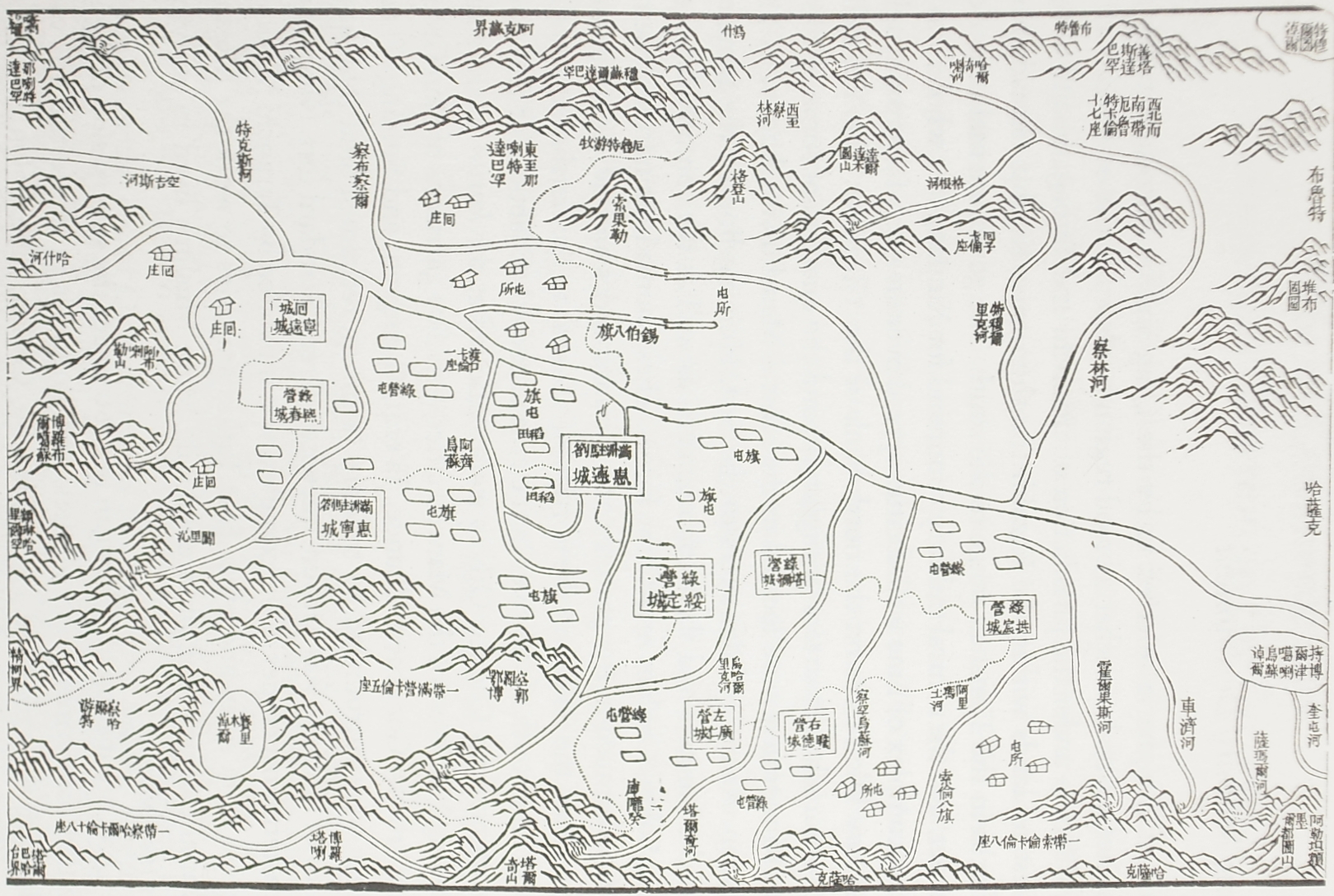 Map of the Ili area as of ca. 1809. It is "upside down", that is the south is on top, and the west on the right. The 9 double-squares correspond to the 9 fortified towns that existed there since the 1760s, as per Ili_Kazakh_Autonomous_Prefecture#Qing_Dynasty; from left to right (i.e., east to west): 宁远城 (Ningyuan Cheng = "Old Kulja"; it's a 回城, i.e. a Muslim (Taranchi, Uyghur) town 熙春城 (Xichun Cheng; it's a Lüying ( 綠營). i.e. Green Standard Army town Huining Cheng 惠宁城, a town for Manchu troops Huiyuan Cheng 惠远城, a town for Manchu troops Suiding Cheng 绥定城, Green Standard Army Guangren Cheng 广仁城, "left camp" Taleqi Cheng 塔勒奇城, Green Standard Army Zhande Cheng 瞻德城, "right camp" Gongchen Cheng 拱宸城, Green Standard Army (on the east side of Horgos River, 霍儿果斯河) East of Ningyuan, one can see a few 回庄 (Hui zhuang, i.e. "Muslim (Taranchi) villages"). Around Manchu and Green Standard towns, one can see a number 旗屯 (qi tun, Banner farms; the were worked by Solons, Chahars, and Xibe, according to Millward) and 绿营屯 (lü ying tun, Green standard farms), as well as 屯所 (tun suo; yet another kind of settler's farms/villages?). Xibo Bannermen (锡伯八旗, Xibo Ba Qi) are shown stationed across the Ili River from Huiyuan. Kazakhs (哈萨克, Hasake), are shown along the northern and western edge of the map; Kyrgyz ("Buruts", 布鲁特, Bulute), further south along the western edge. Lake Sairam (塞里木, Sailimu), is found beyond the Borohoro mountains near the NW corner.